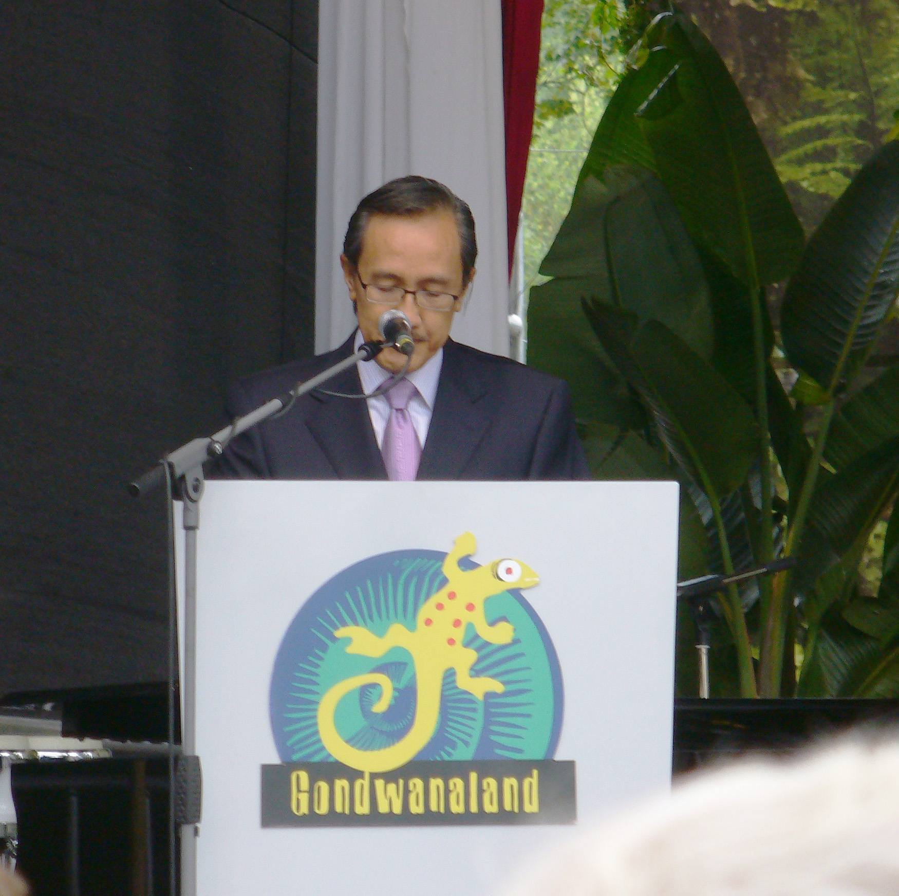 Opening of Gondwanaland, Zoo Leipzig, Germany, 30 June 2011